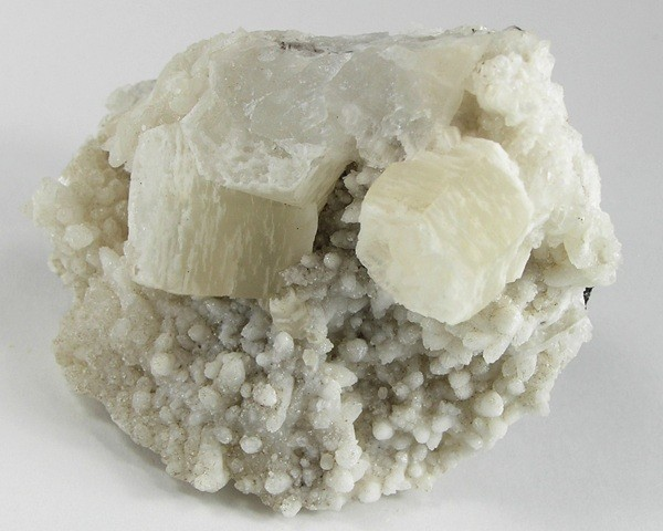 Witherite Locality: Rosiclare Sub-District, Illinois - Kentucky Fluorspar District, Hardin County, Illinois, USA (Locality at ) Size: 6.4 x 5.4 x 3.4 cm. Two sharp pseudohexagonal crystals of witherite, both complete and terminated, on a field of calcite and smaller witherite. A Hardin County classic. Ex. Jaime Bird Collection.